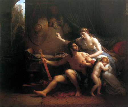 Eponine and Sabinius in the cave